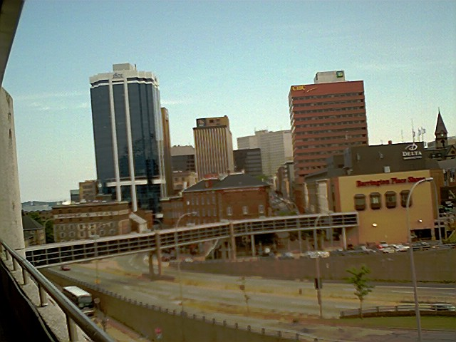 An example of a pedway. Taken in Halifax, Nova Scotia, Canada.